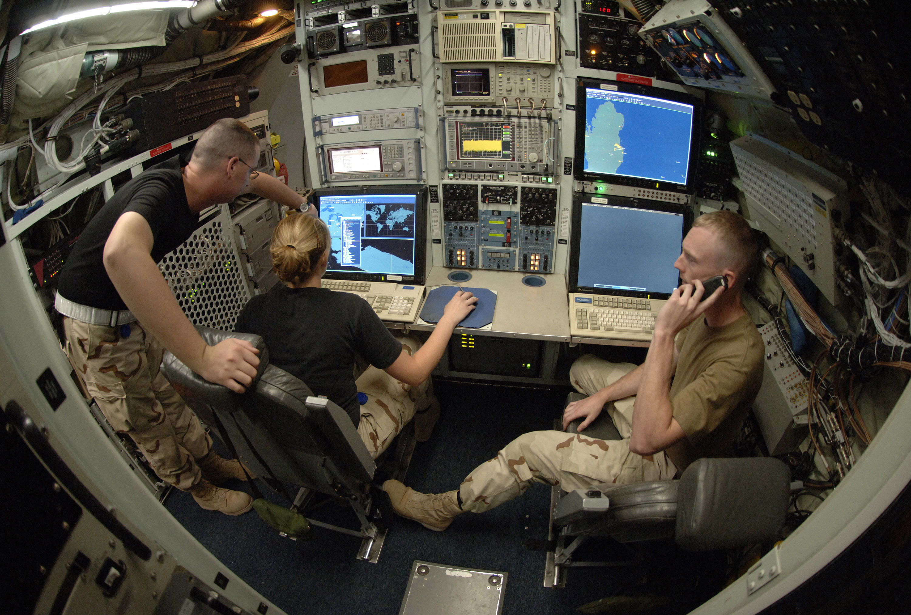 Maintainers turn Rivet Joint: Senior Airman Weylin Oliver and Airman 1st Class Ami Grabowski create and route test signals from a maintenance station aboard an RC-135 Rivet Joint reconnaissance aircraft deployed to Southwest Asia while Senior Airman Dennis Kidwell fields a call from his maintenance supervisor. On average, it takes close to two years for these technicians to become 100 percent qualified to perform the 146 core tasks that are needed to maintain the planes sophisticated intelligence gathering hardware. The three are electronic warfare specialists. Airmen Grabowski and Oliver are from the 97th Intelligence Squadron from Offutt Air Force Base, Neb. Airman Kidwell is deployed from the 488th Intelligence Squadron, Royal Air Force Mildenhall, England.